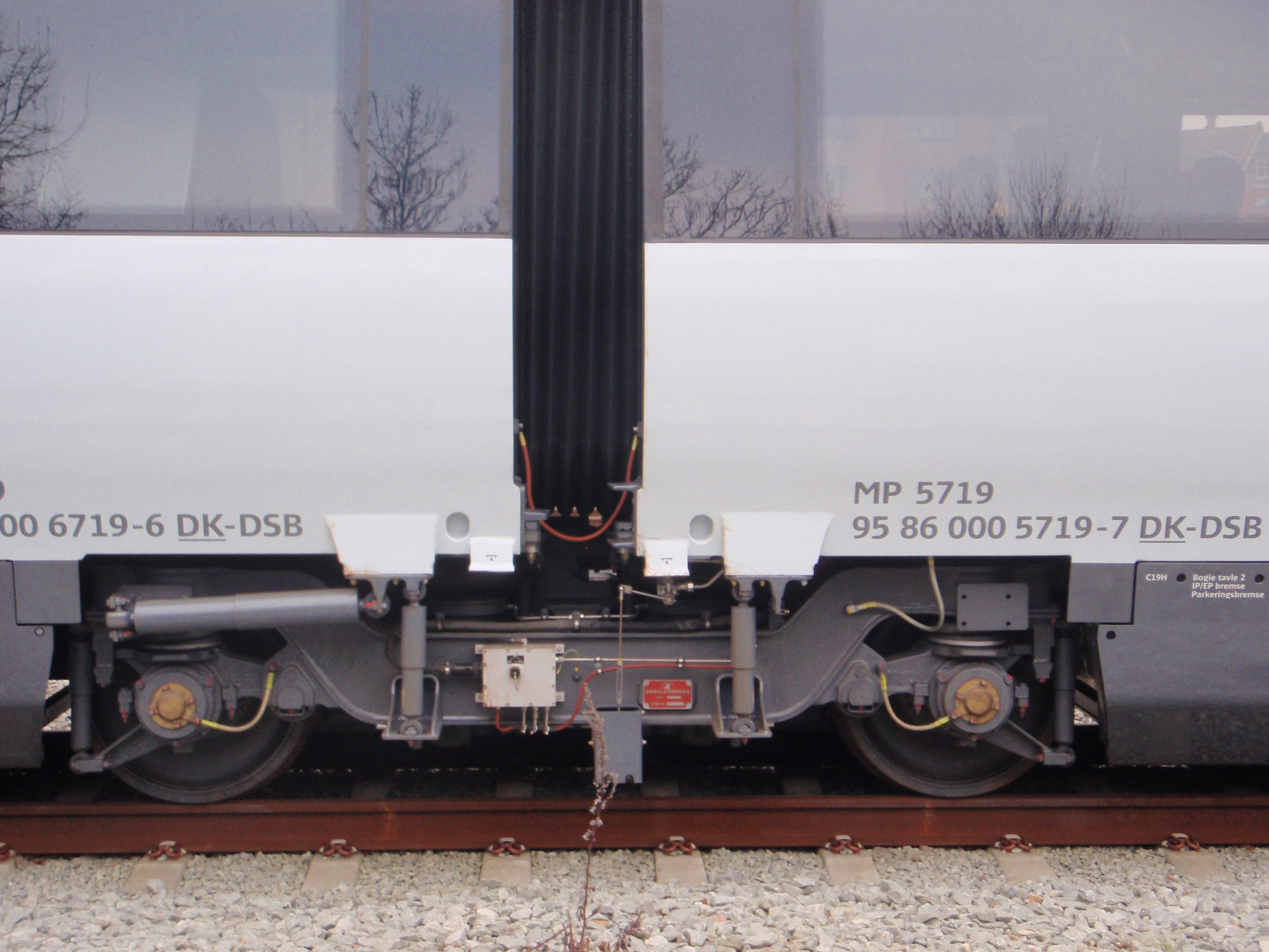 DSB IC2 MP 5719 FP 6719 Jakob's bogie